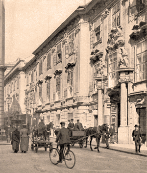 old city hall vienna